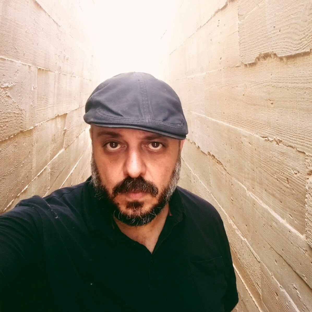 David Peretz